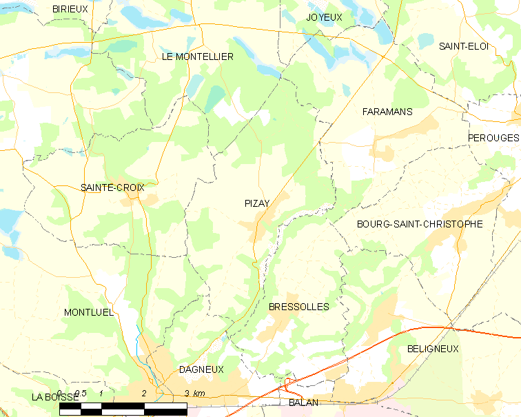 Map of French commune: Pizay Map commune FR insee code 01297.png